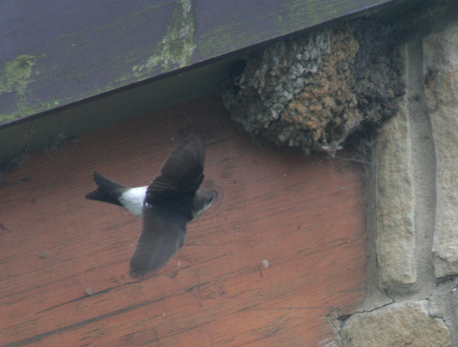 A House Martin coming back to the nest. They fly so fast that it was sheer luck that I got this picture